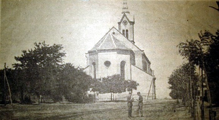 old Catholic church in Čestereg in Vojvodina, Serbia